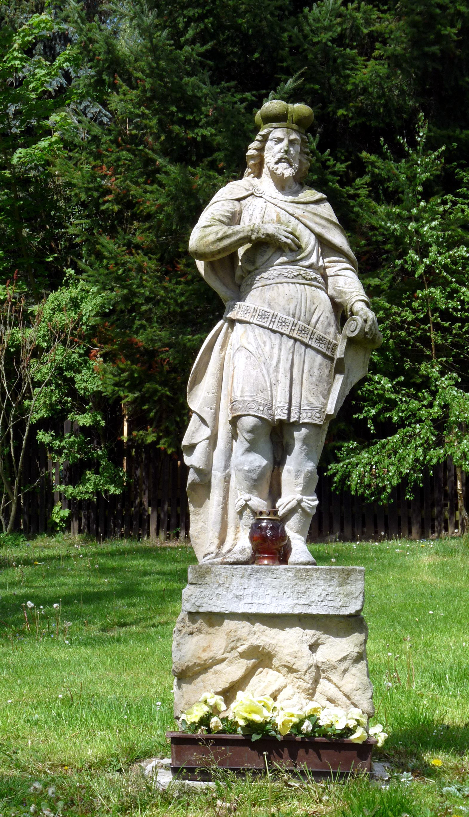 Statue of Saint Wenceslaus in the village of Macourov, Havlíčkův Brod District, Vysočina Region, Czech Republic.